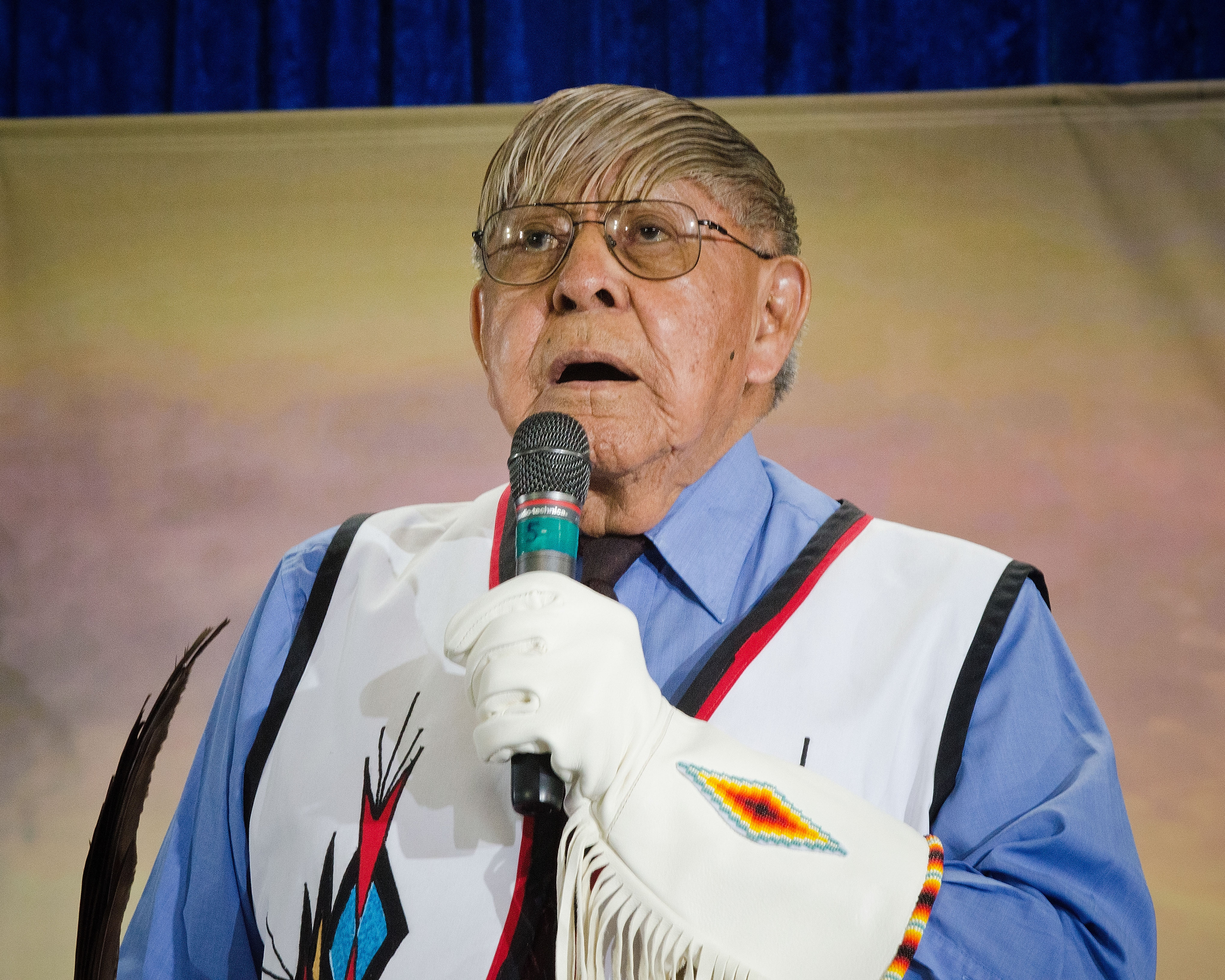 Chief Old Person of the Blackfeet Nation, Montana sings a prayer at the opening of the United States Department of Agriculture's 150th Anniversary celebration in Washington, D.C., on Tuesday, May 15, 2012. USDA photo by Bob Nichols.